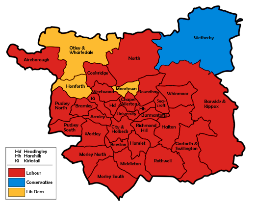 Ward map of Leeds City Council with political colouring for the 1995 election.